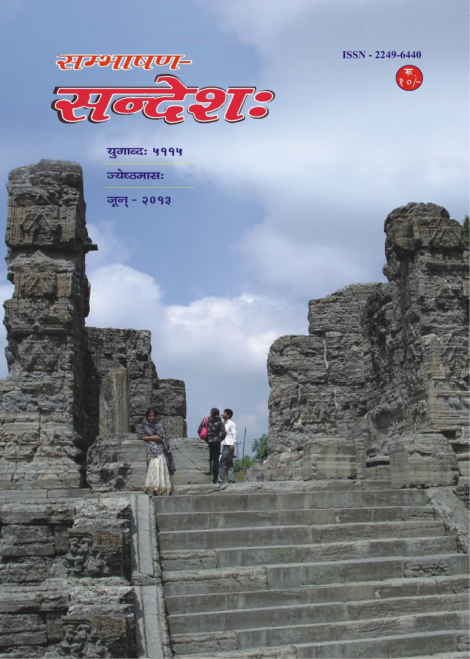 Sambhāṣaṇasandeśaḥ is a monthly magazine published by samskrita Bharati.